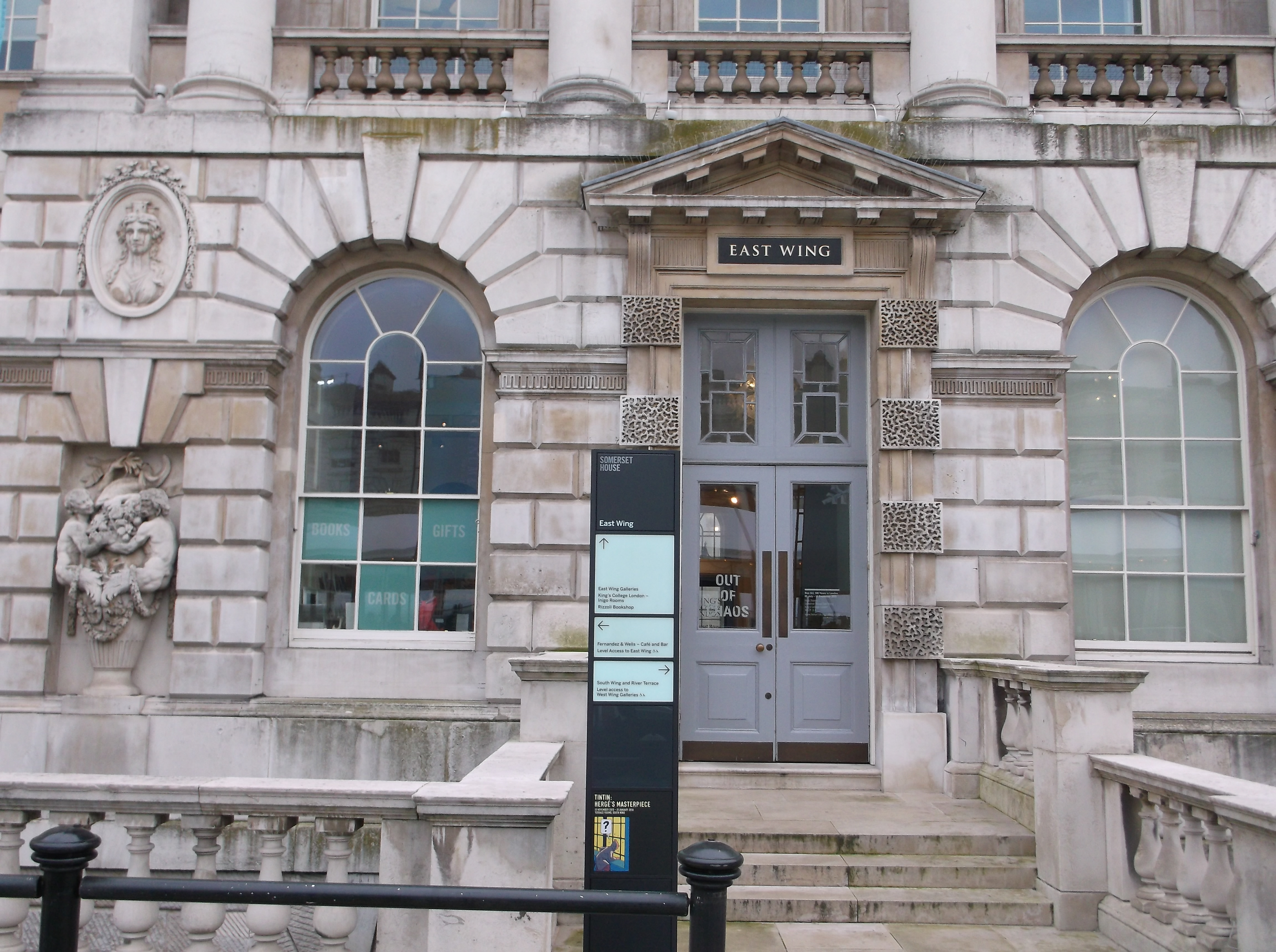 courtyard of Somerset House, off the Strand, London, in December 2015. A Temporary ice rink has been installed for the season.